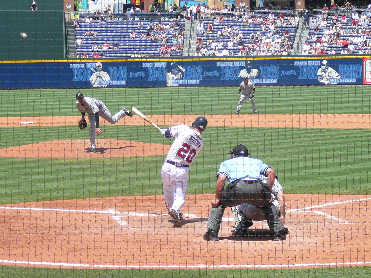 Please attribute photo with author's name if used somewhere other than Wikipedia. 18:20, 4 August 2008 . . Chrisjnelson . . 1,280×960 (1.13 MB)